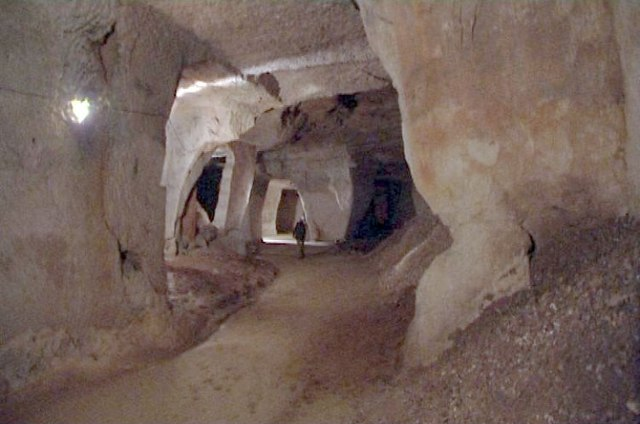 Interior of Beer Stone Quarry near to Vicarage, Devon, Great Britain